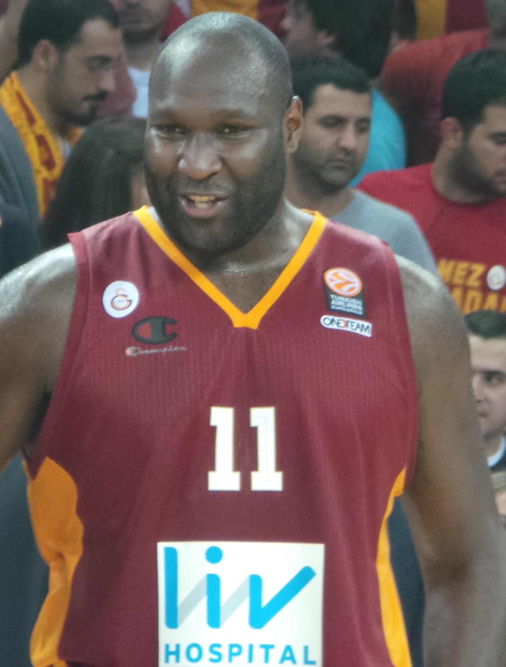 Nathan Jawai against Olympiakos